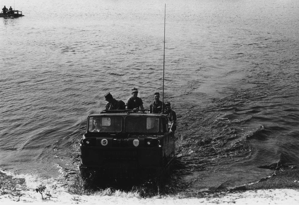 Company B, 11th Motor Transport Battalion Marines test an M116 Husky amphibious vehicle